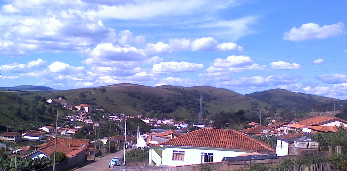 Vista parcial de Arantina.